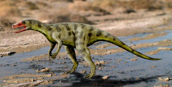 Sanjuansaurus